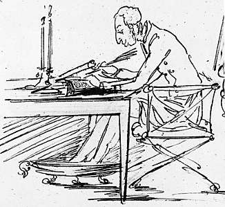 Gustav IV Adolf Other versions: Image:Gustav IV Adolf painted by P. O. Adelborg.jpg